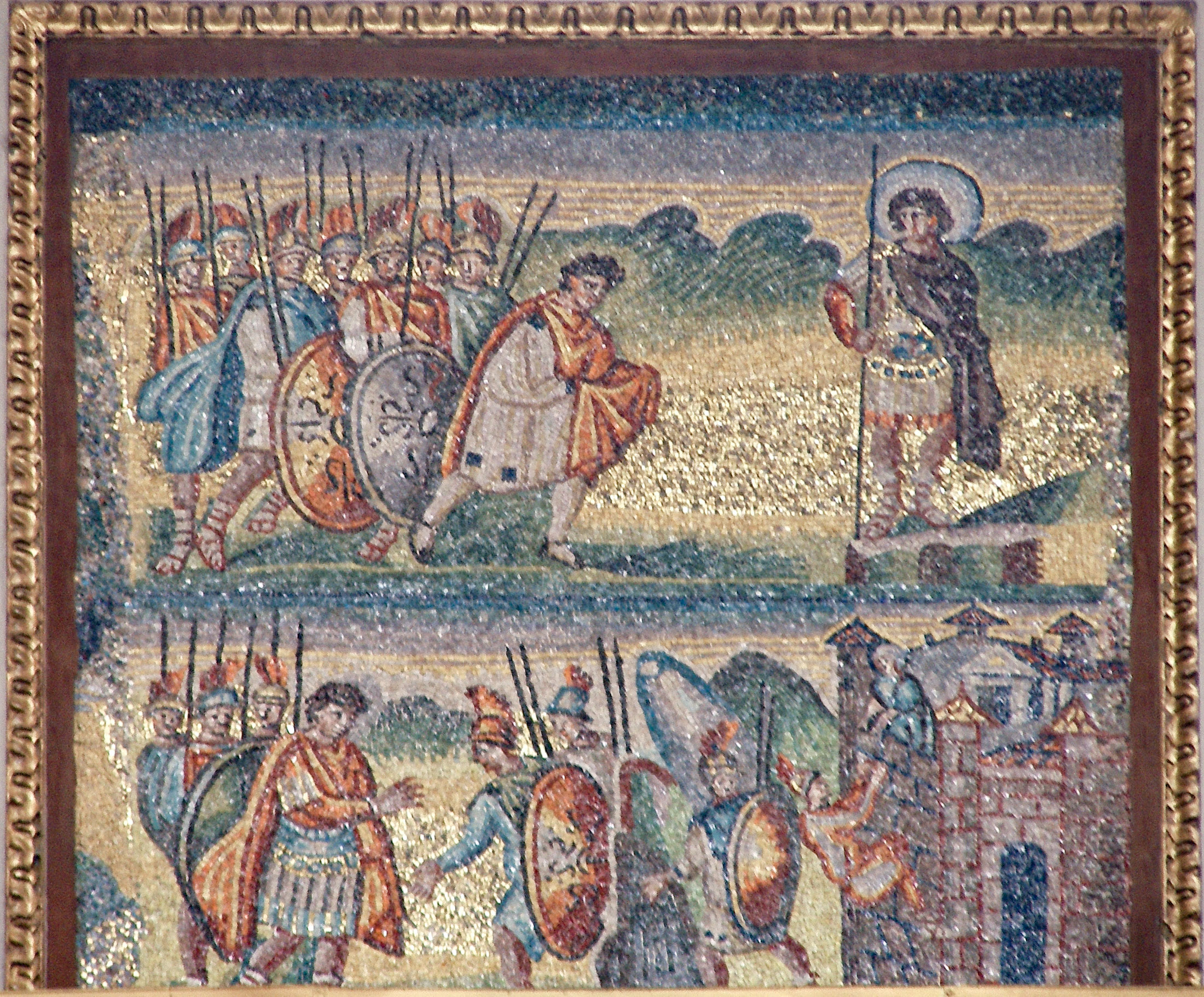 Top: the visit of the “prince of the host of the Lord” to Joshua before the conquest of Jericho (5:13-15). Bottom: Rahab the Prostitute helping an Israelite spy climb down the wall (Joshua 2). Roman / Early Christian Nave Mosaics, Santa Maria Maggiore, Rome, Italy